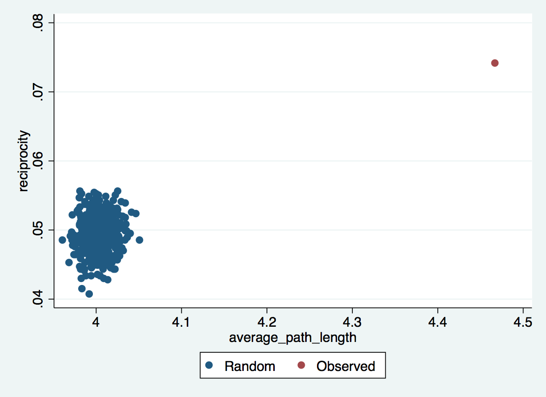 Blue dots are results of network metrics from individual trials of degree preserving randomization, and the red dot is the observed characteristic for the real network.